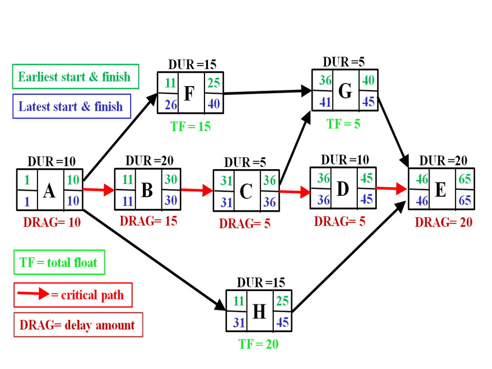 Simple activity-on-node logic diagram with total float and drag computed [Field C latest finish should be 35 not 36.]